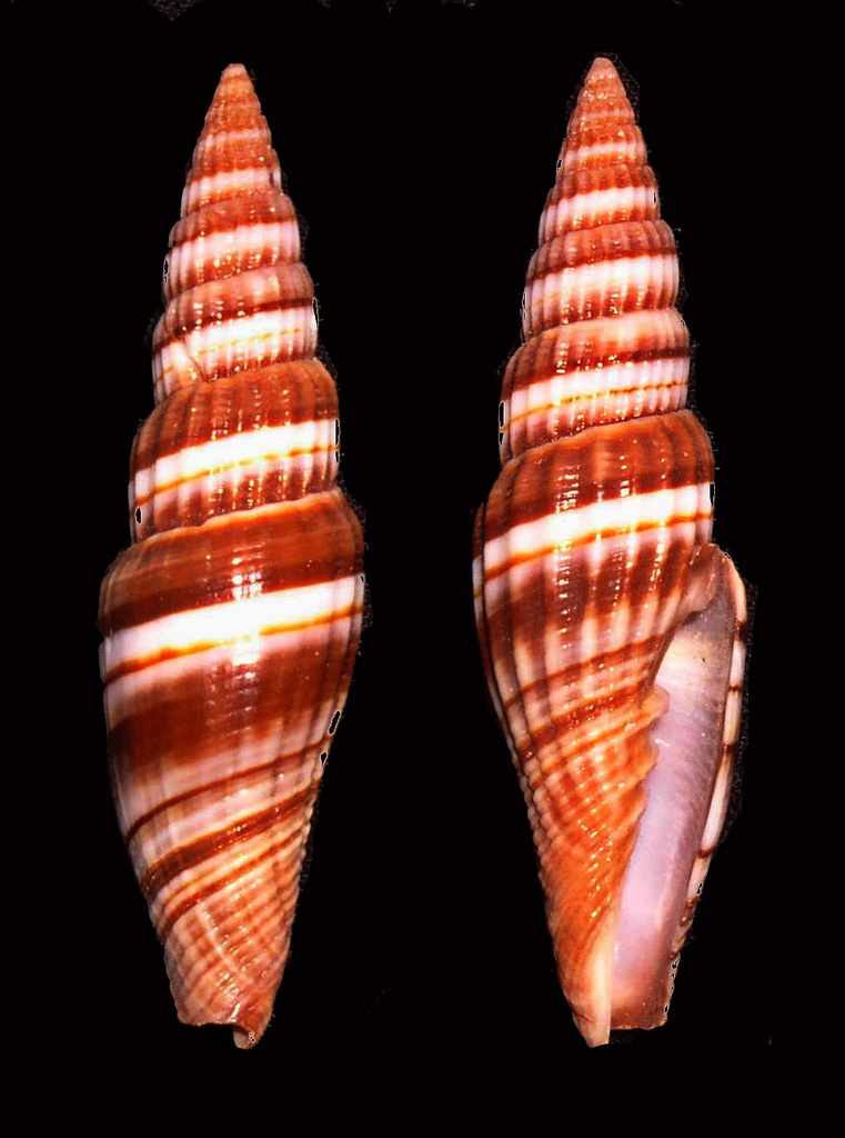 Vexillum (Vexillum) curviliratum (Sowerby II & Sowerby III, 1874)